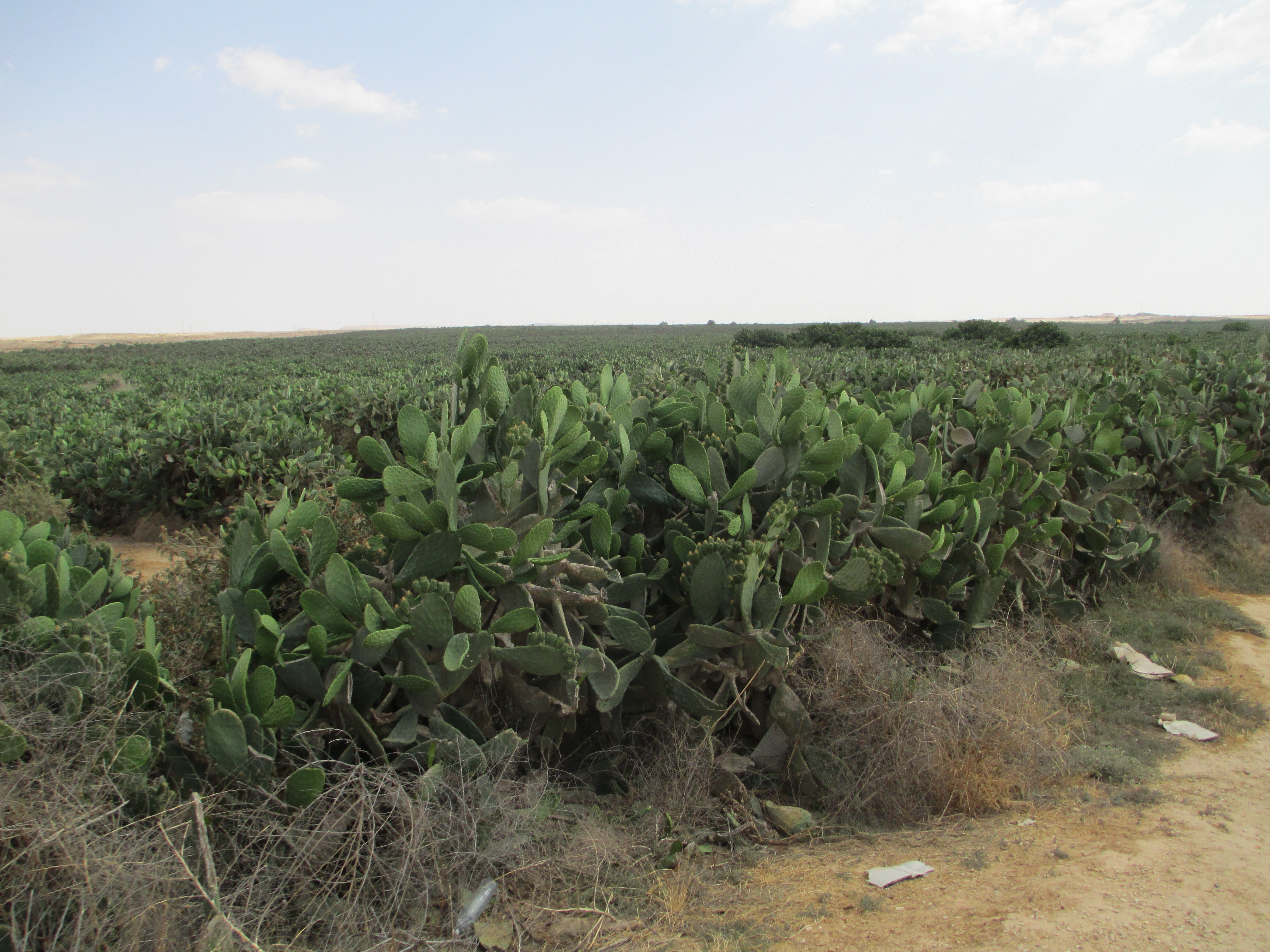 The Orly Cactus Pear Farm